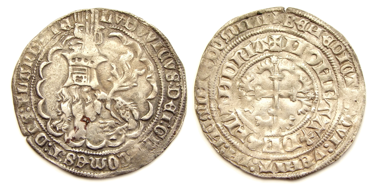 Flanders, double groat or botdrager, struck under Louis II, Count of Flanders (Louis of Male)